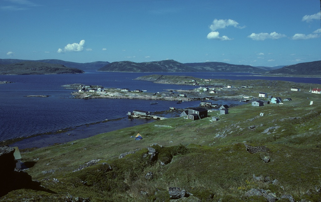 Henley Harbour, Labrador - note the two little forlorn tents in which we stayed - before they blew away in the night.